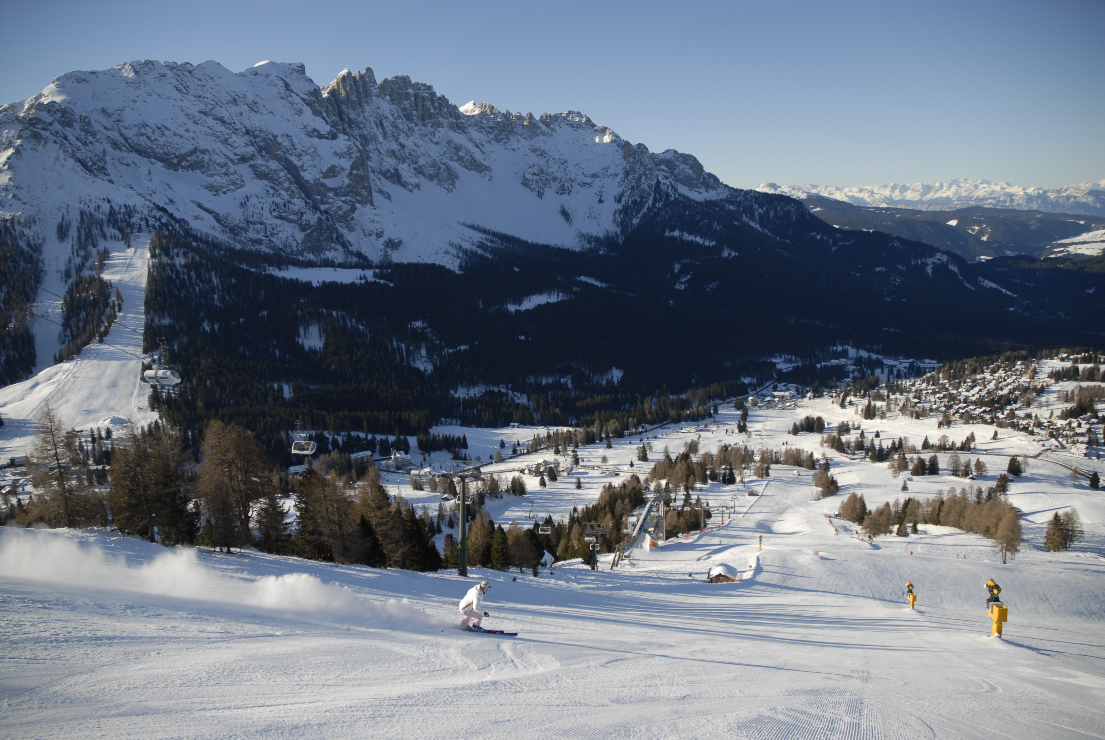 Skiarea Carezza